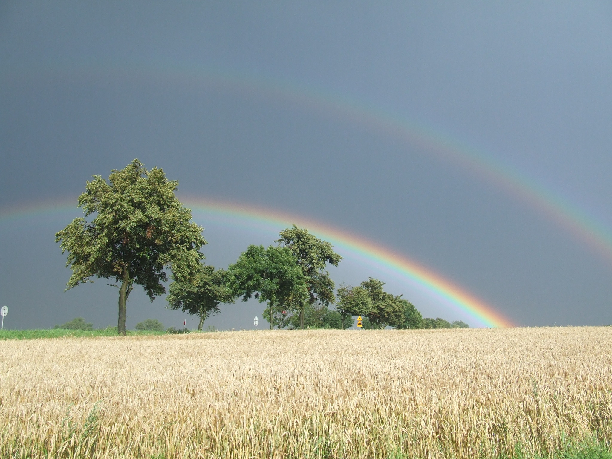 Alexander's band